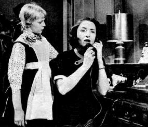 Photo of Bonnie Sawyer (child Kim Emerson} and Flora Campbell (Helen Emerson) from the television daytime drama Valiant Lady.